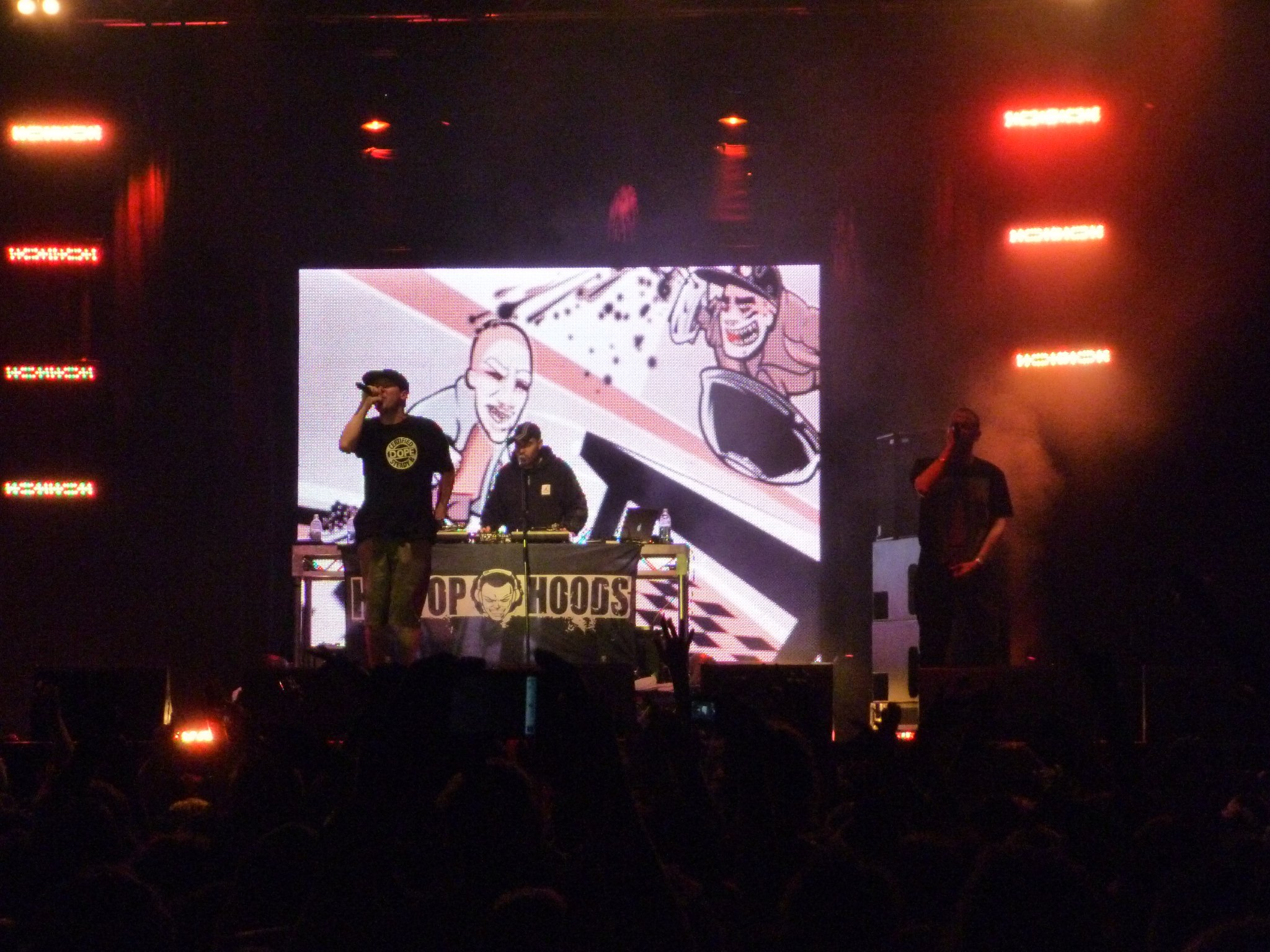 Cool DJ Next (The Legion) Photos from my page.